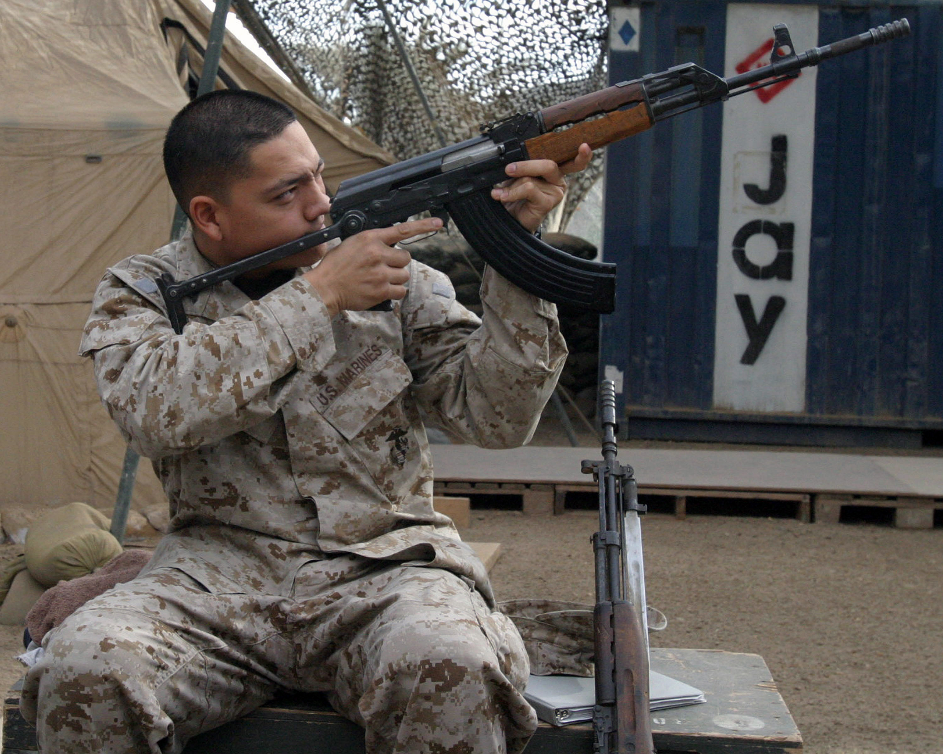 US Marine Corps (USMC) Corporal (CPL) Raul Gonzalez, Combat Lithographer, Combat Camera and Printing, 1st Marine Division (MARDIV), sights a 7,62x39 Zastava M70 assault rifle (with a folding stock), which was captured during a Security and Stabilization Operation (SASO) conducted against Iraqi insurgents in Ar Ramadi, Iraq, during Operation IRAQI FREEDOM. Location: CAMP BLUE DIAMOND, AR RAMADI IRAQ (IRQ)